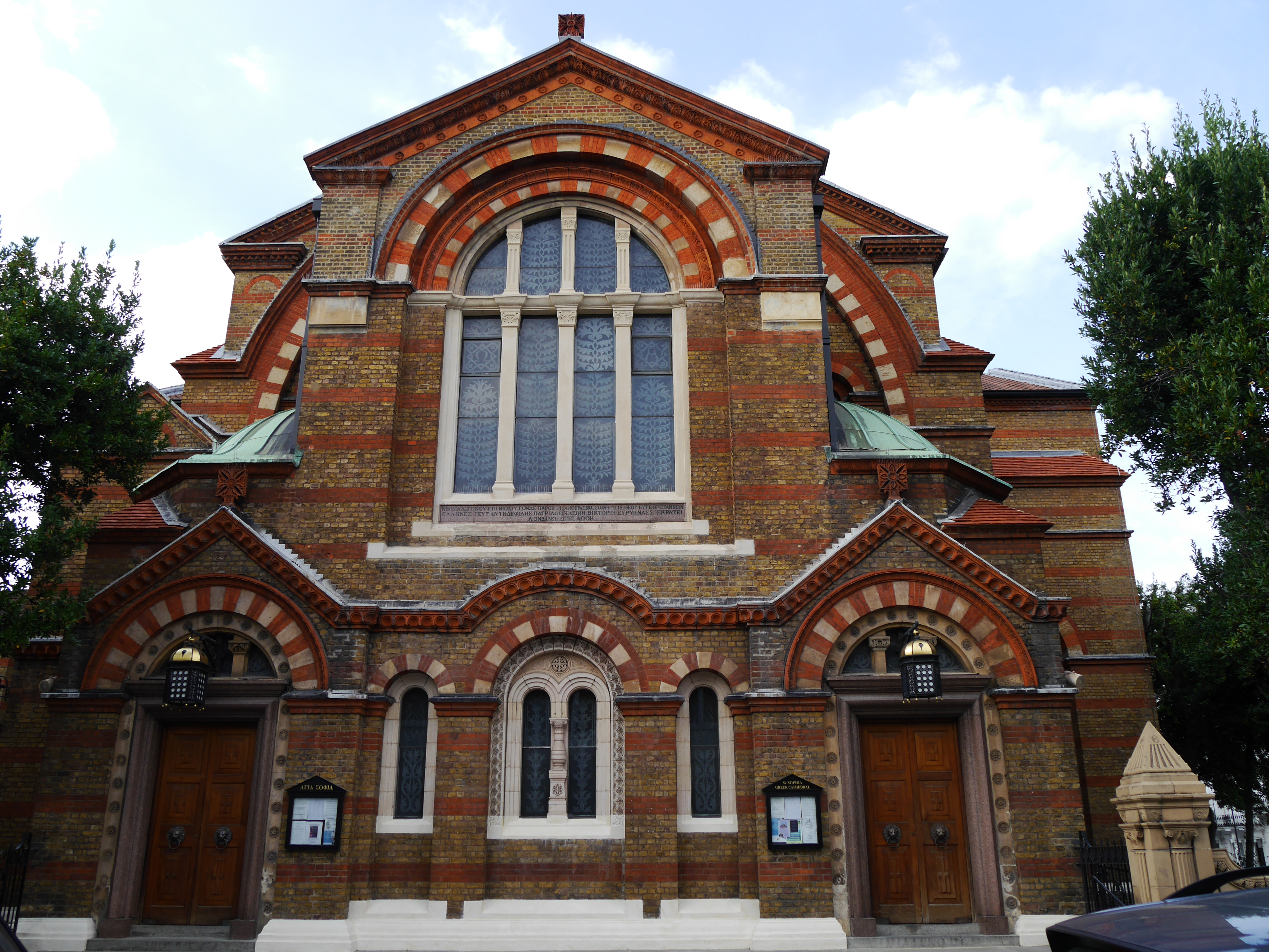 St Sophia's Cathedral, London